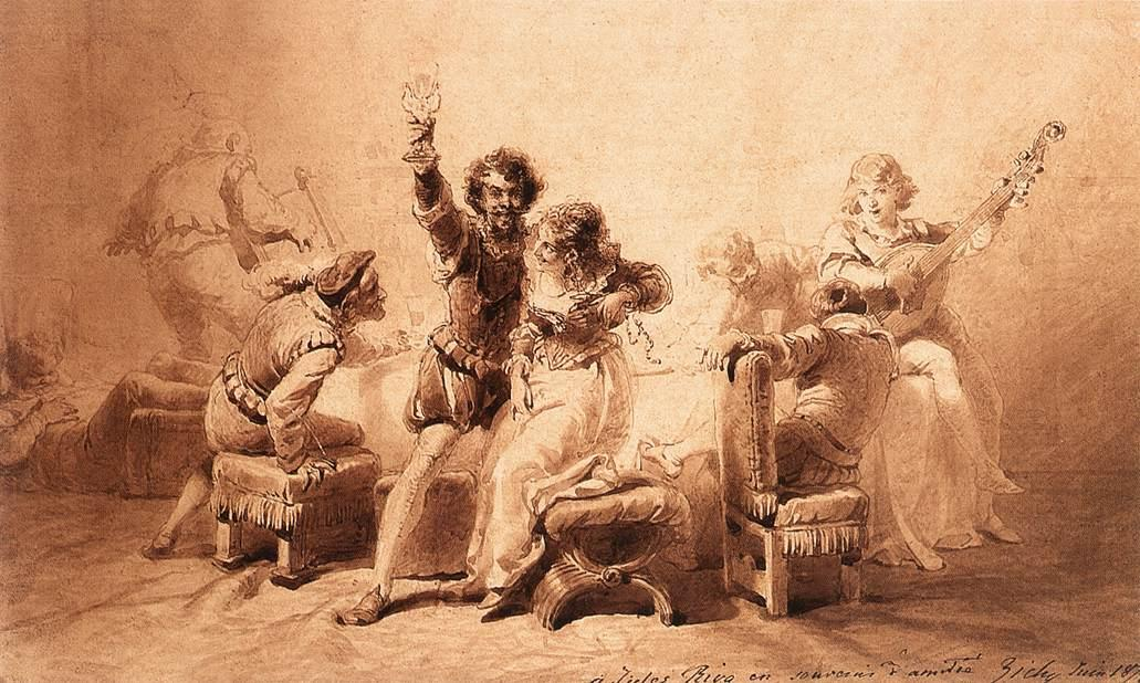 Drinking-song, 1874.